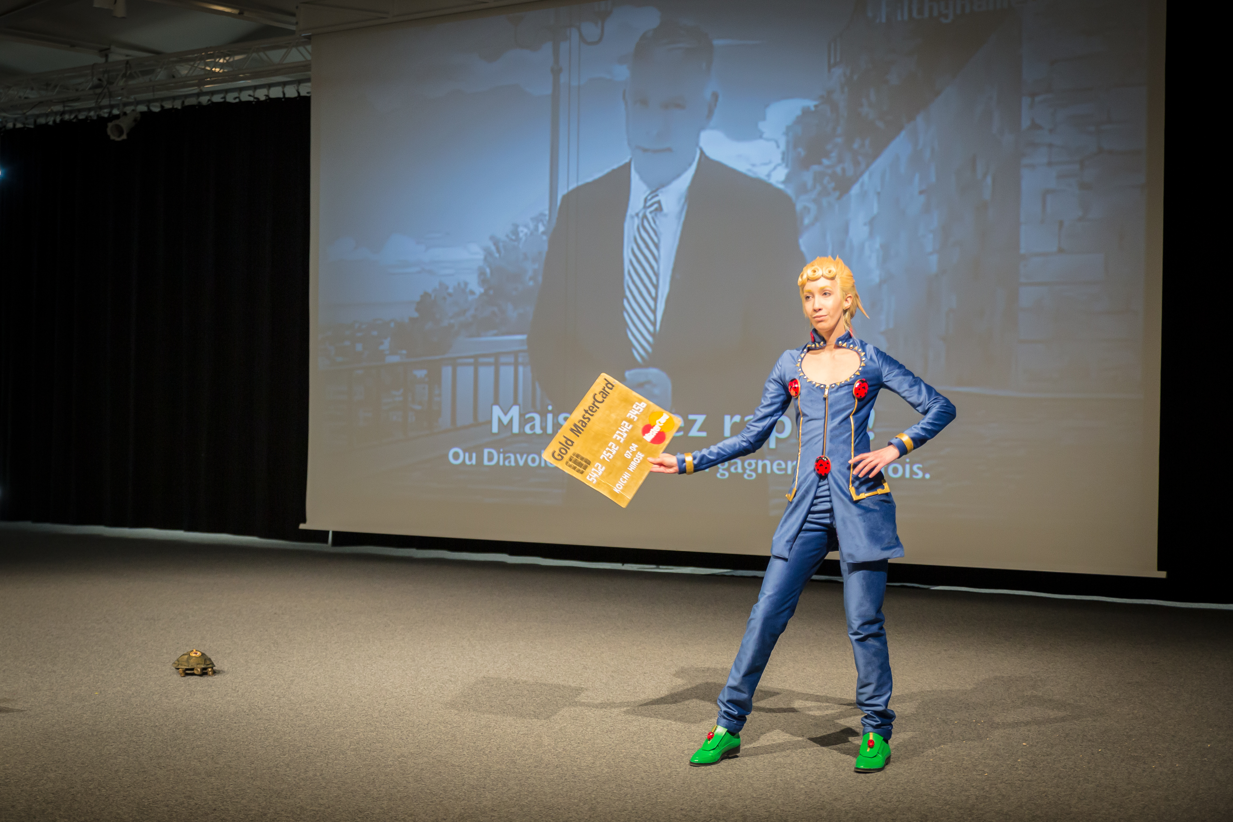 This is Giorno Giovanna (Jojo's Bizarre Adventure – Golden Wind). Cosplay at Japan Impact 2019 – Concours Cosplay Individuel, 16-17 February 2019, EPFL (Suisse). Photo: Stéphane Gallay, licence Creative Commons (CC-BY)